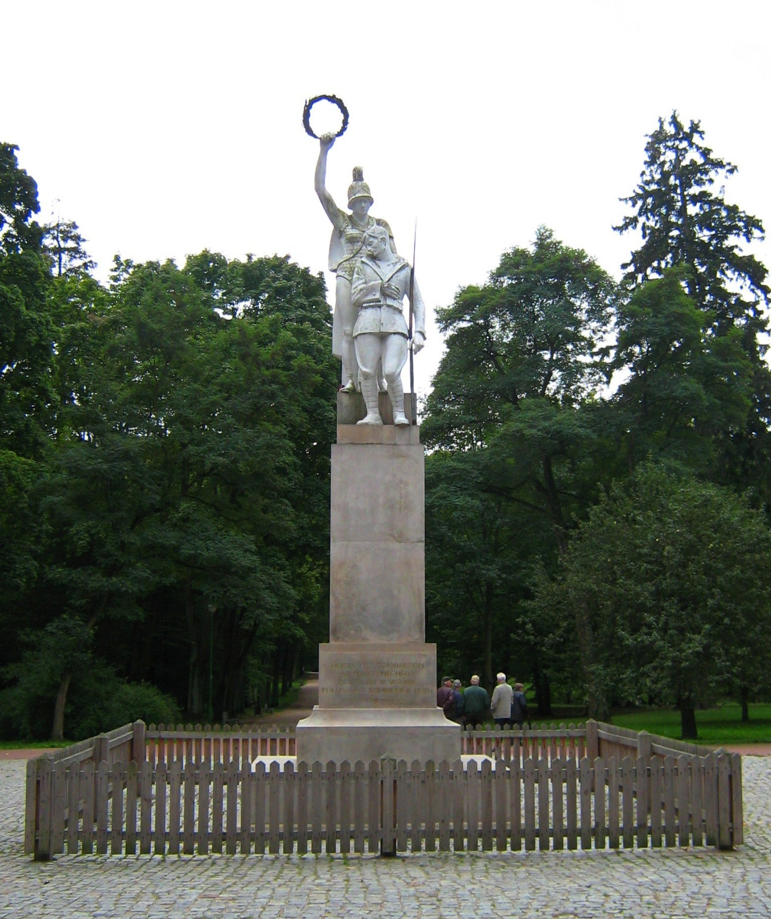 Park of the 3rd May Constitution in Białystok. Monuments.